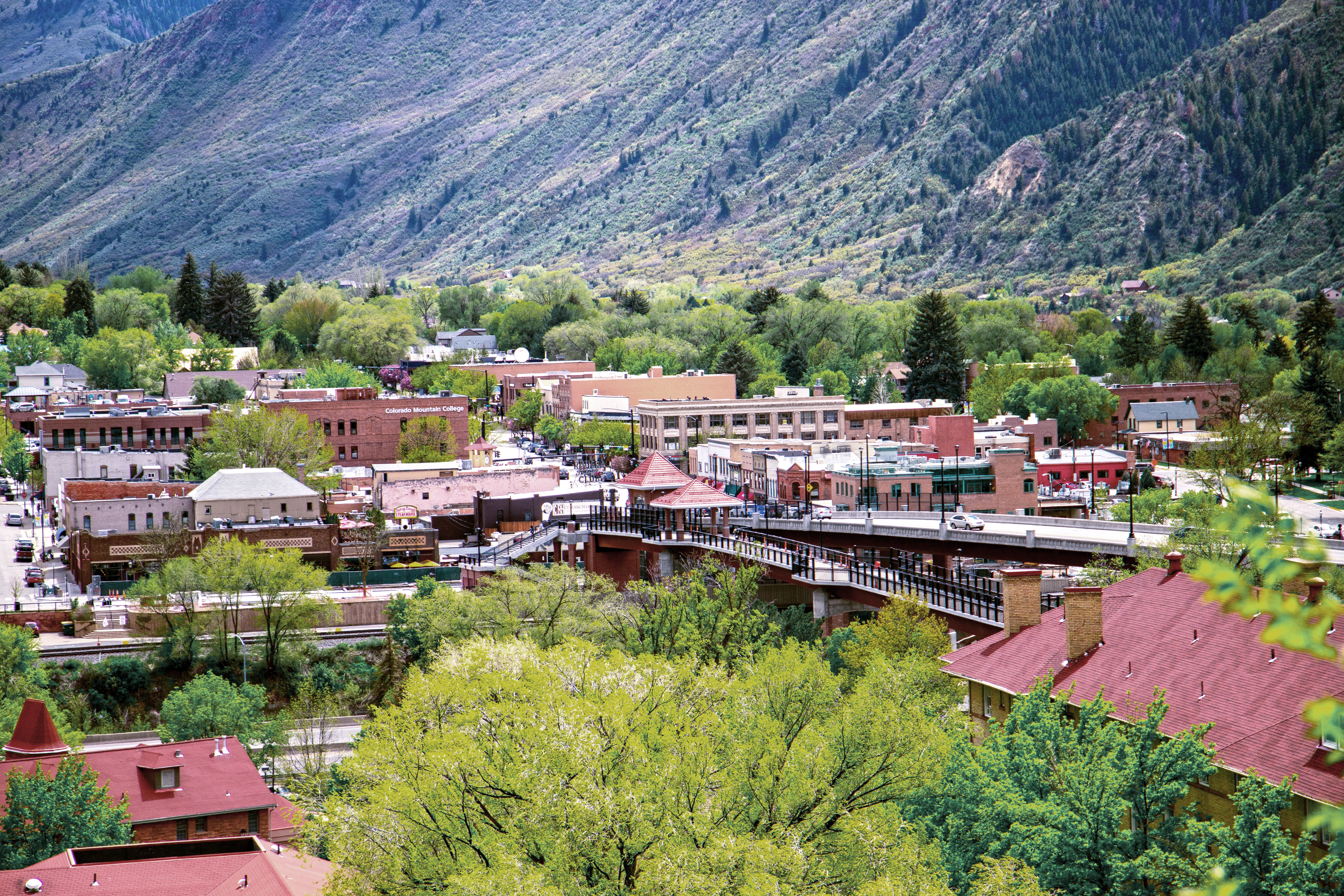 Overlooking Downtown Glenwood Springs